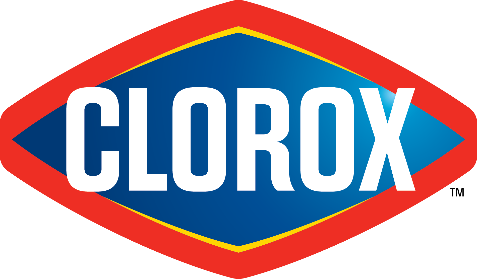 2019 version of the Clorox "brand" logo; not to not to be confused with the corporate mark.